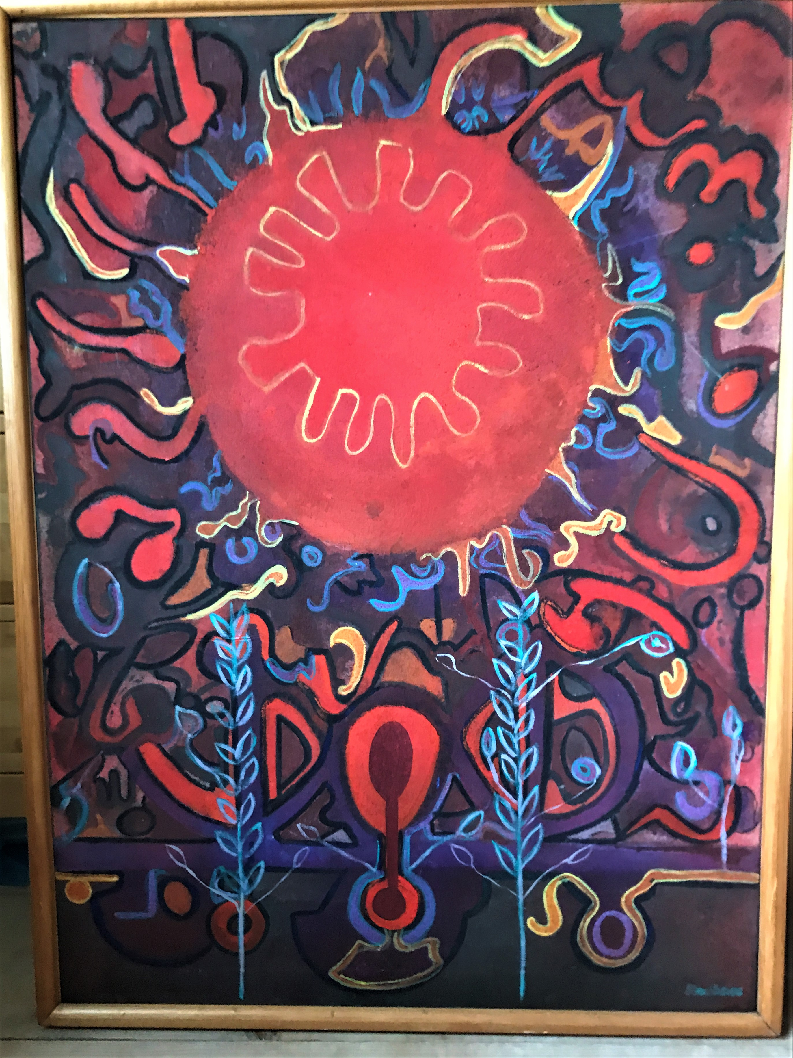 And the Sun of October Summery (Dylan Thomas) painted by Stan Jones